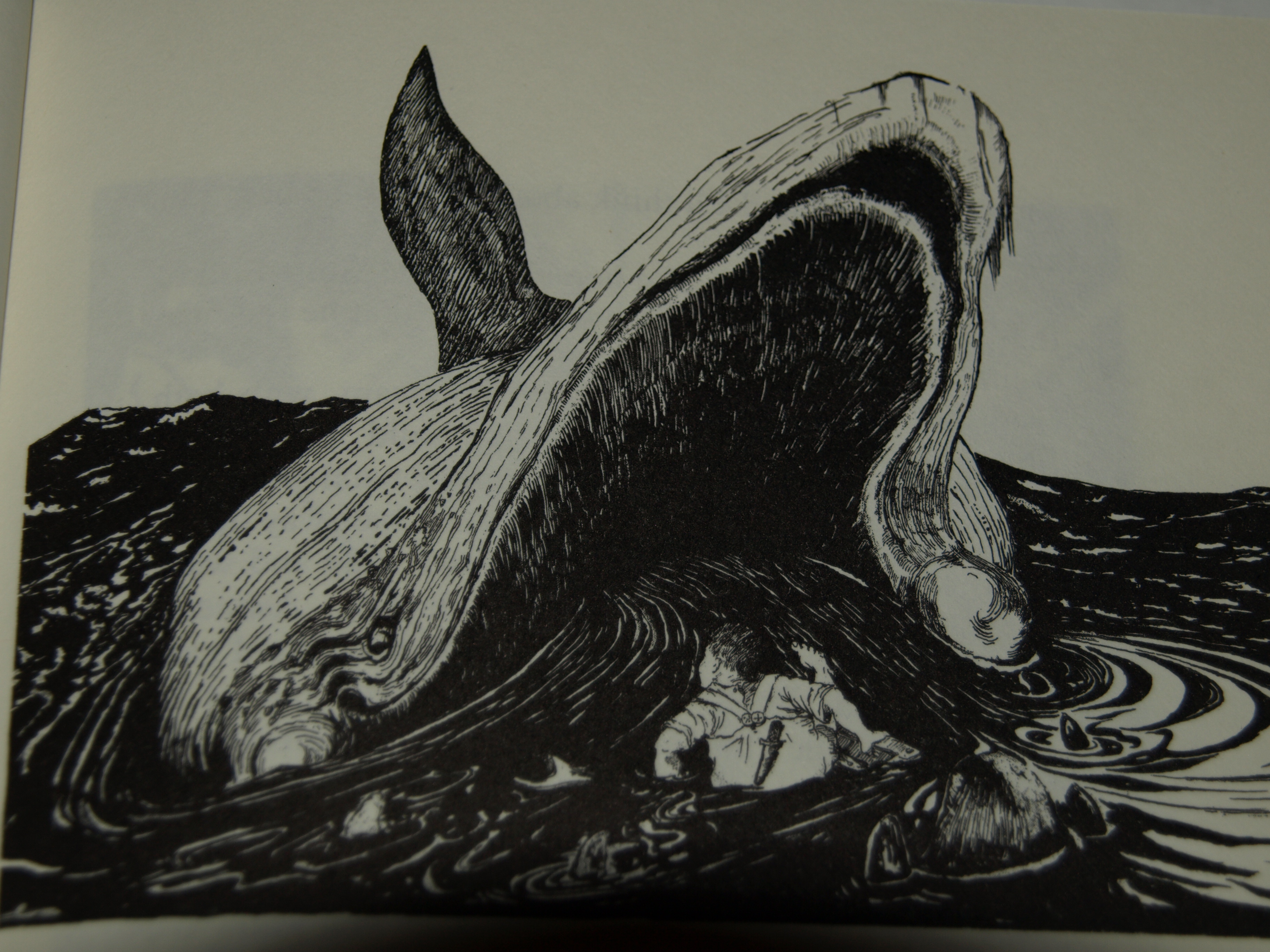 Illustration drawn by Rudyard Kipling (1865-1936) for the first edition of his Just So Stories